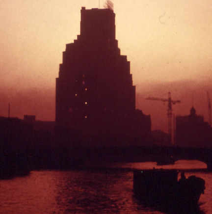 Shanghai Mansions